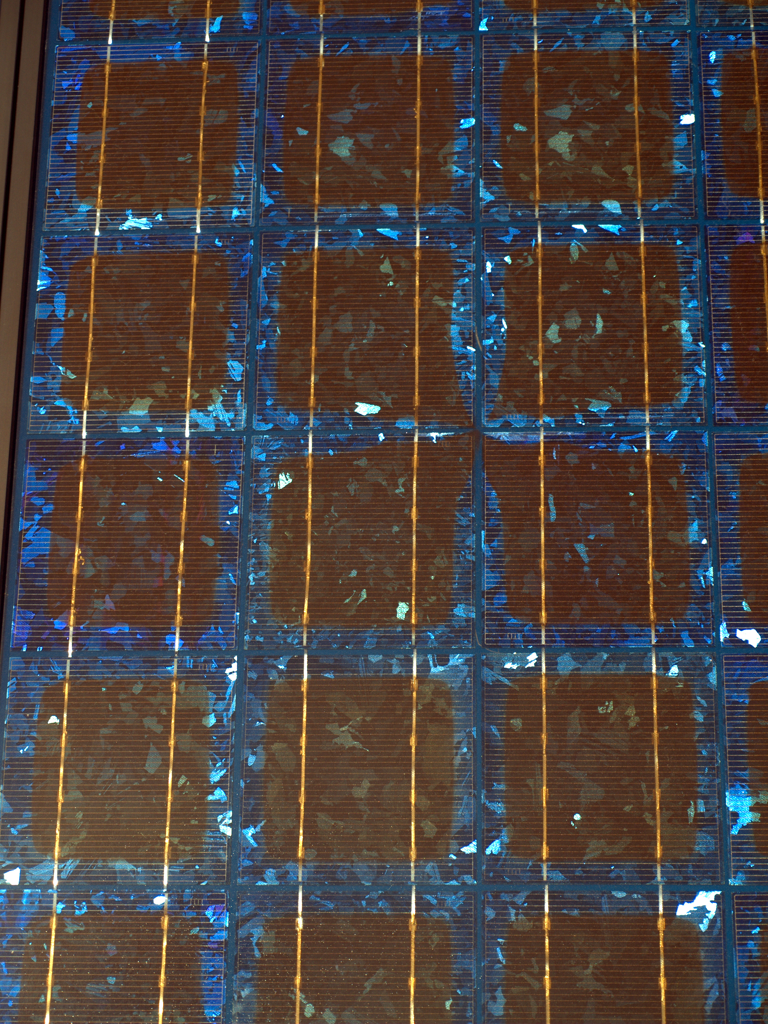 Solar cells on a Photovoltaic panel at the National Solar Energy Center, Jacob Blaustein Institutes for Desert Research, in the Negev Desert of Israel.